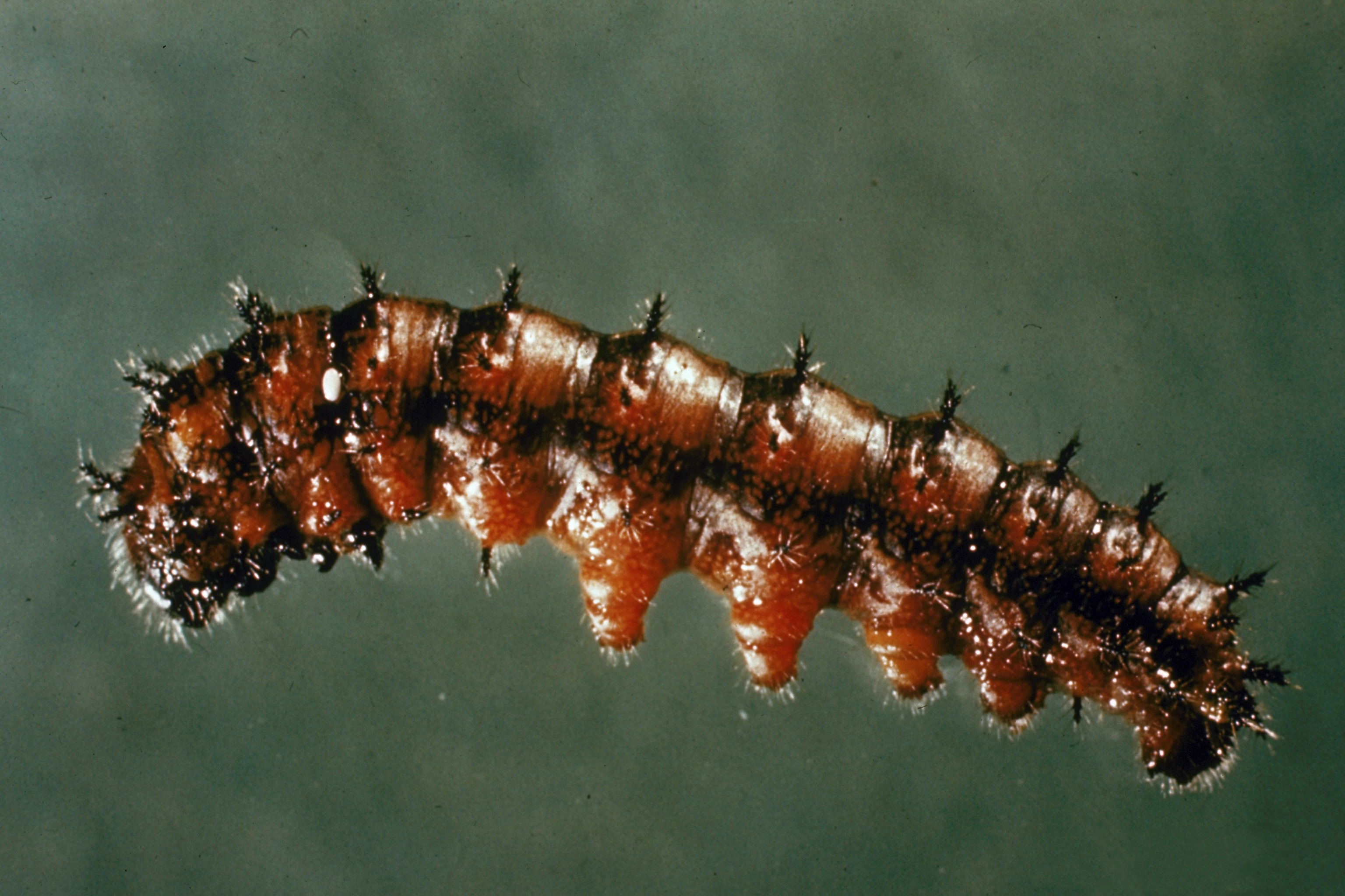 Coloradia pandora